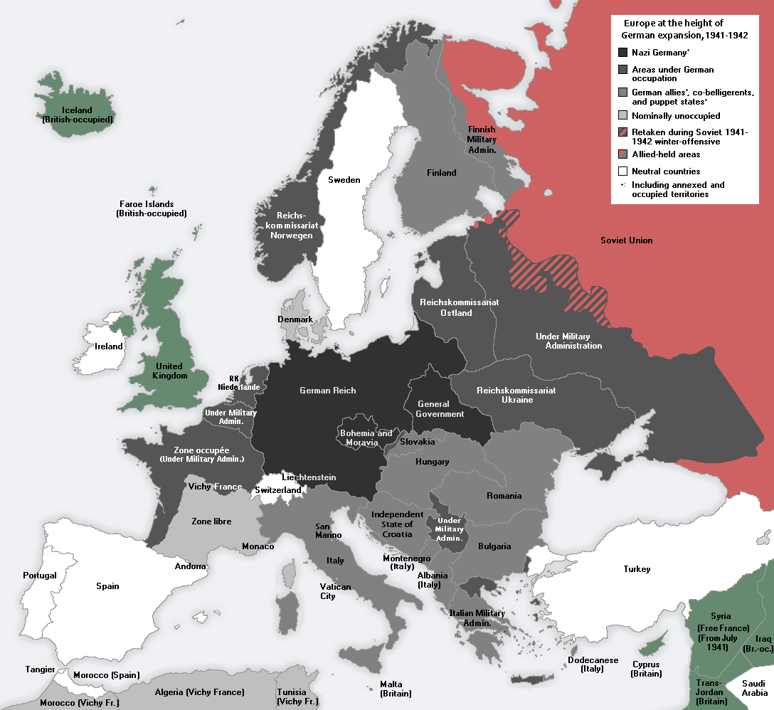 Europe at the height of the WWII Axis military conquests in 1941–1942.